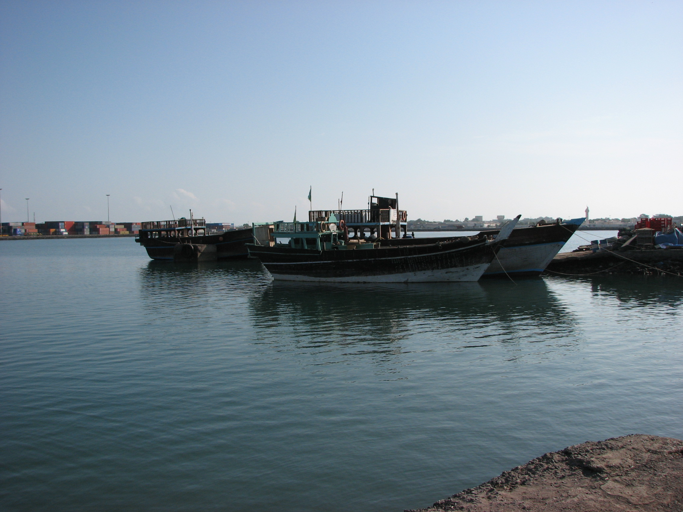 Fishing boats docked at the Port of Djibouti.